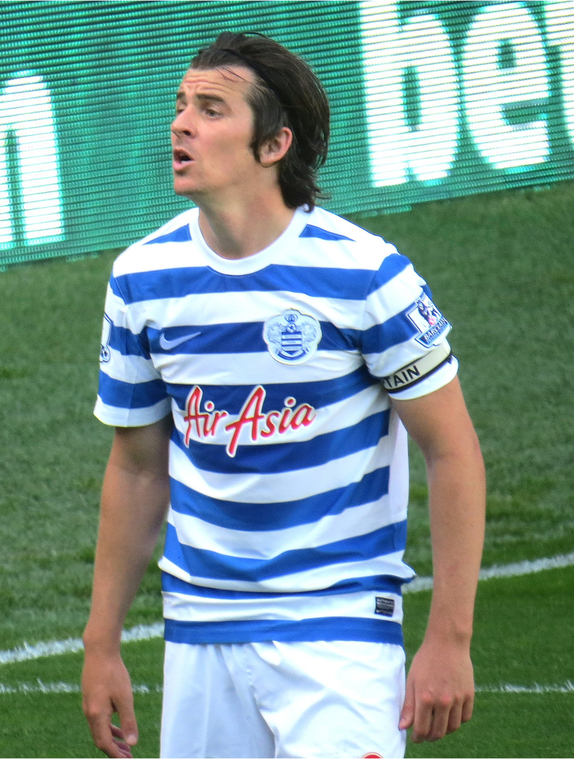 Joey Barton plays in the last home game of the 2014-15 season v. Newcastle